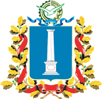 Ulianovsk oblast, coat of arms (1996)